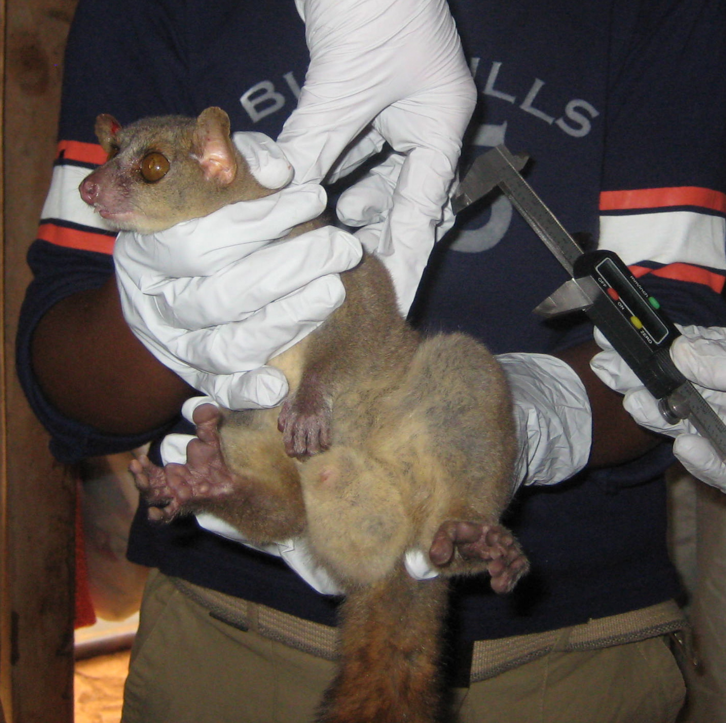 Measurements taken of testicle size in Mirza zaza at Ankarafa, Sahamalaza Peninsula, Madagascar